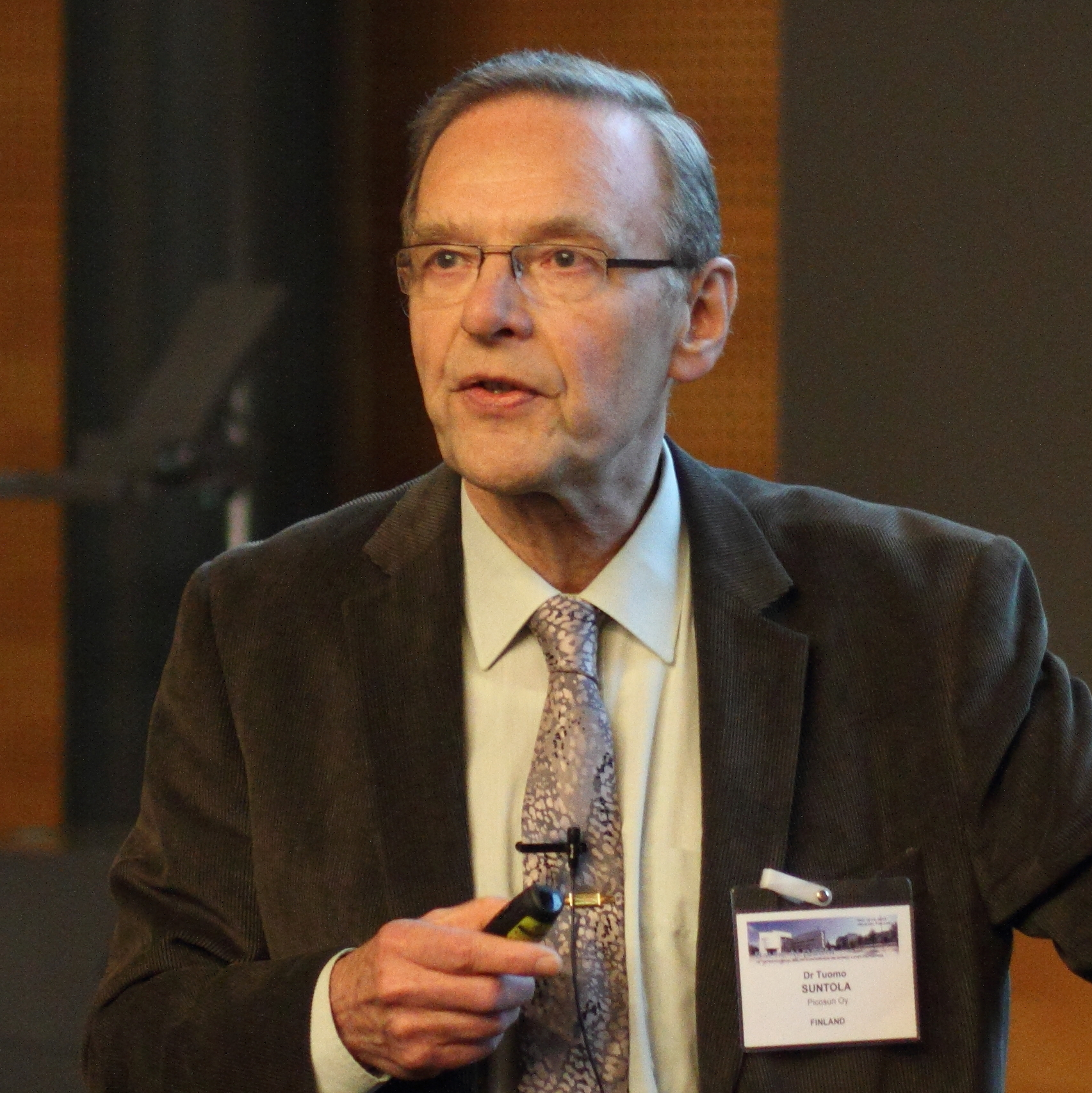 Tuomo Suntola giving the opening invited talk entitled "From ideas to global industry - 40 years of ALD in Finland" at the International Baltic ALD conference, May 12, 2014, in Helsinki, Finland